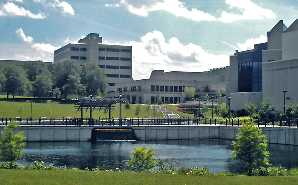 Loch Norse, now completely encased in "fortified" coastline and equipped with a system of locks for mechanical prototyping and other uses. Formerly a run off pond due to construction in a hilly terrain. Shown one of two areas.